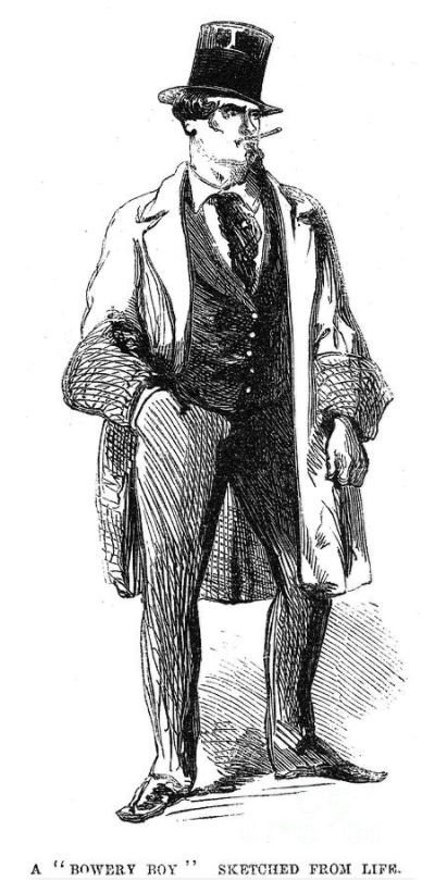 Description from the LOC: Bowery Boy of New York City in 1857 included within newspaper "Four scenes from the riot in the Sixth Ward, New York City between the "Bowery Boys" and the "Dead Rabbits" showing: women and men throwing brickbats down on the police, a "Dead Rabbit," a "Bowery Boy," and a "Dead Rabbit," falling at the feet of policeman Shangles"